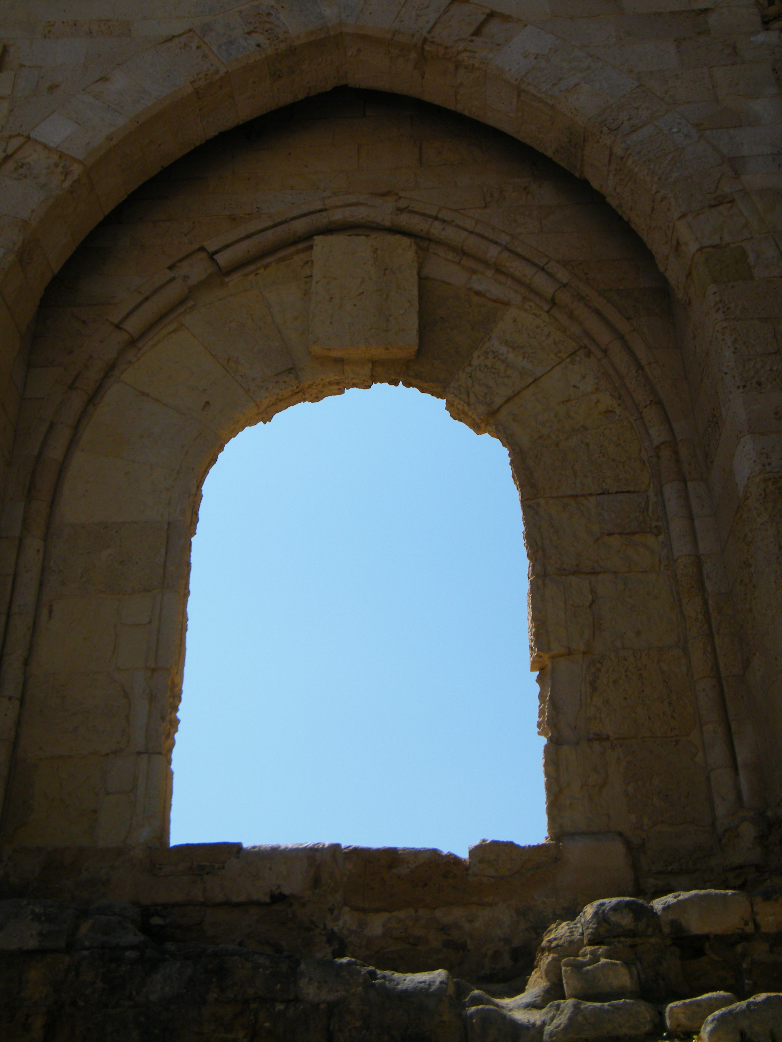 Norman Arch detail - Mazara